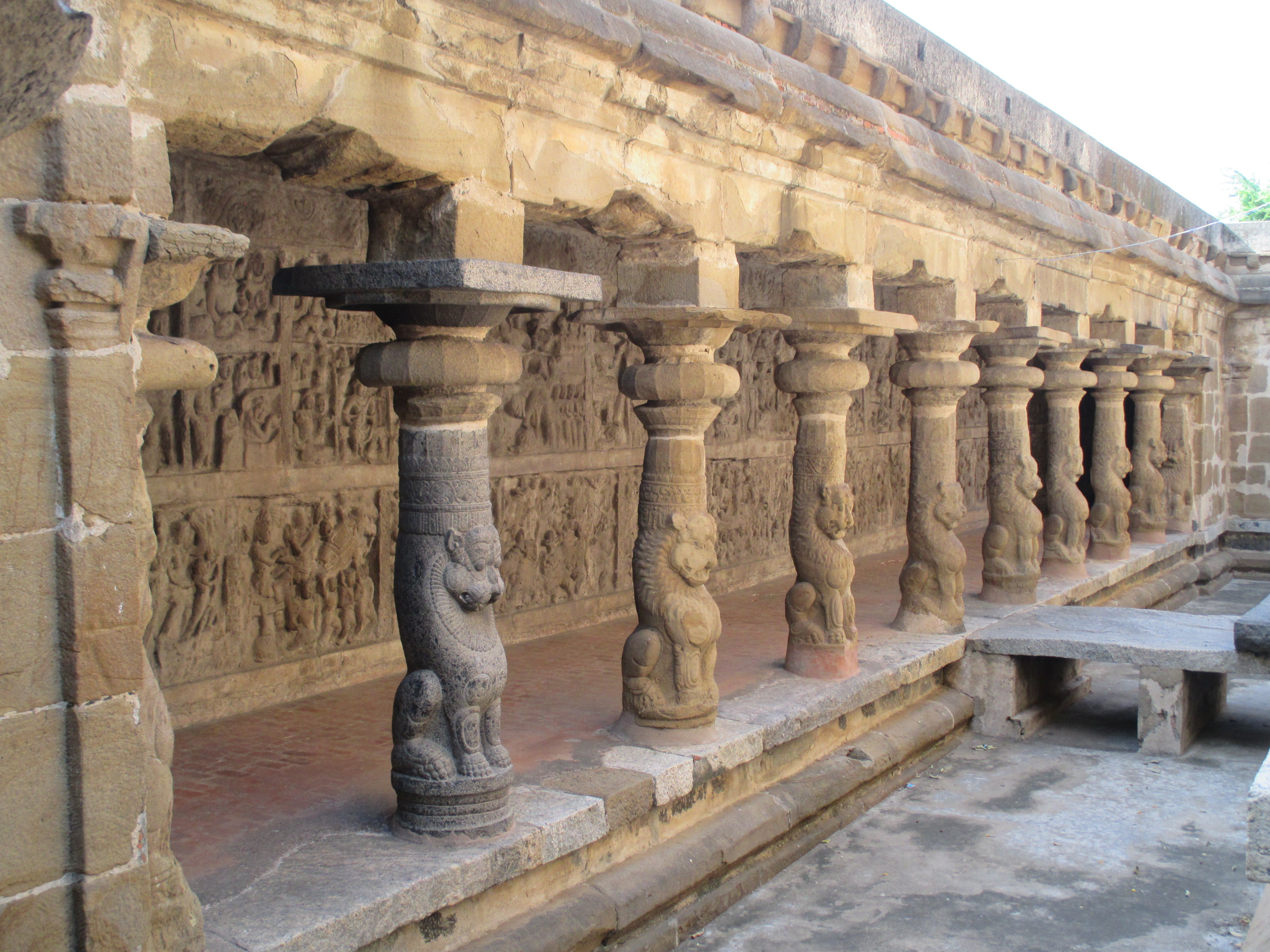 Vaikunta Perumal temple